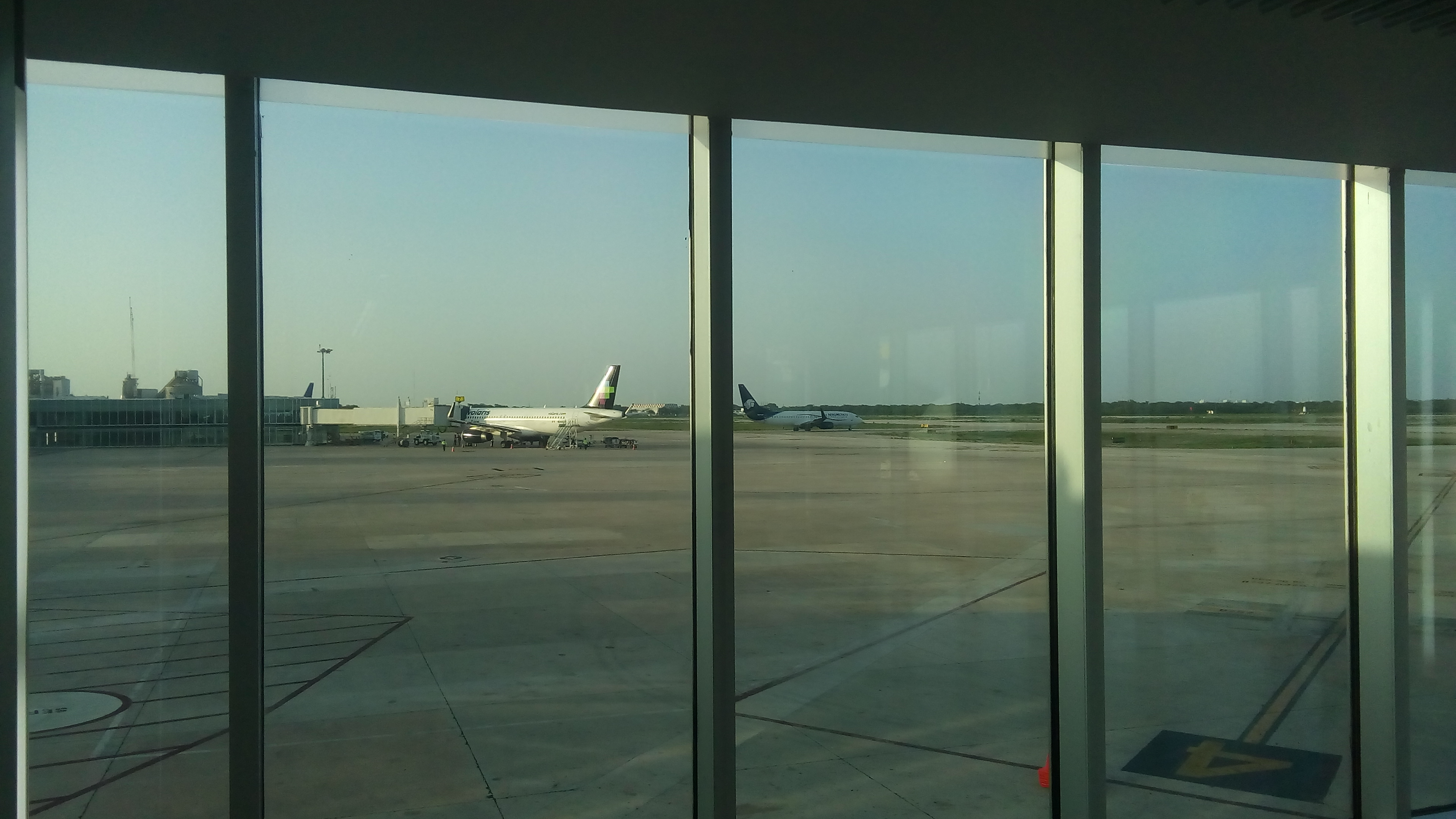 View of the apron at Mérida International Airport.